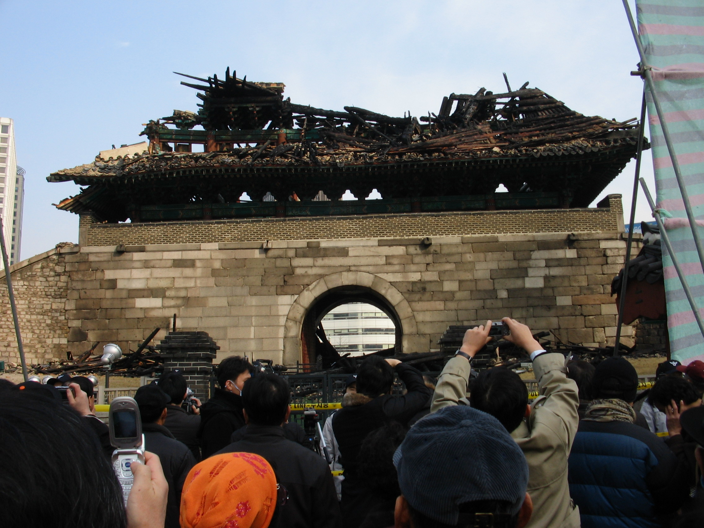 Namdaemun in Seoul - February 11, 2008. The night before the gate had caught fire.